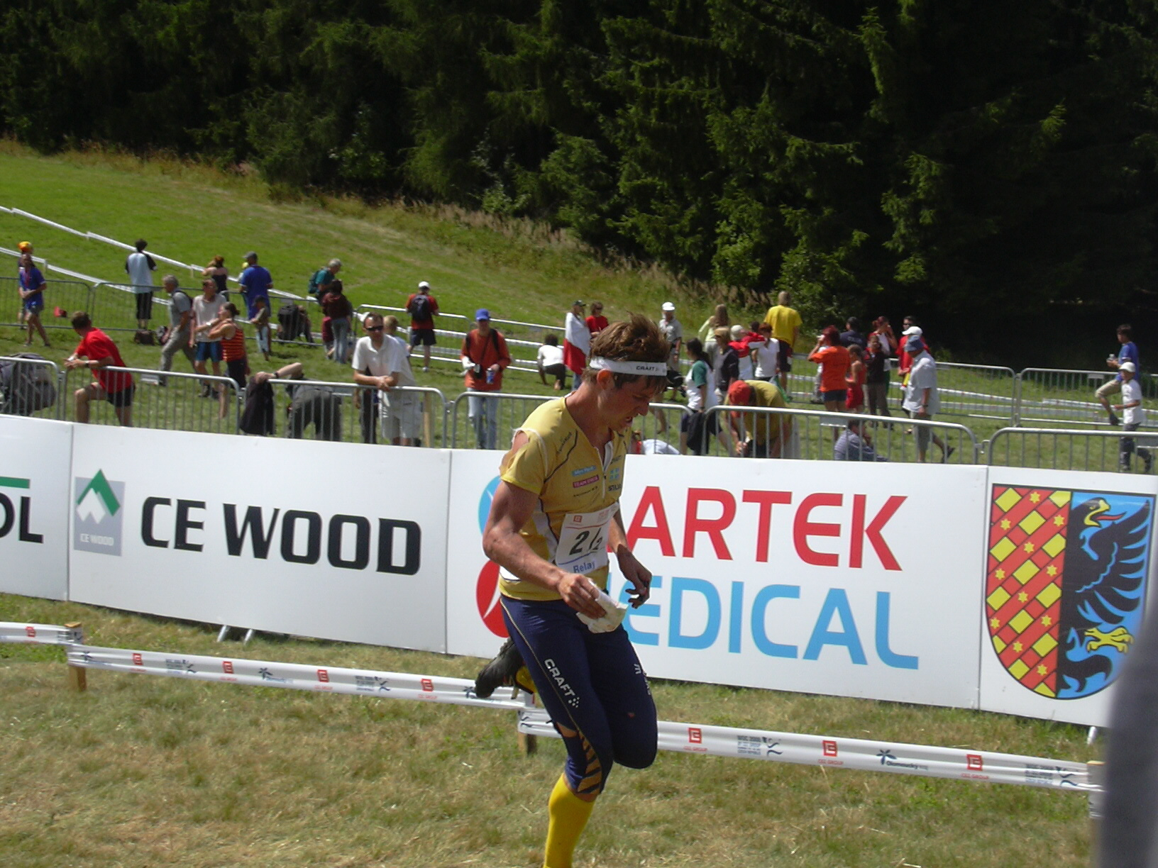 World Orienteering Championships 2008 in Olomouc, Czech Republic. On photo Martin Johansson.